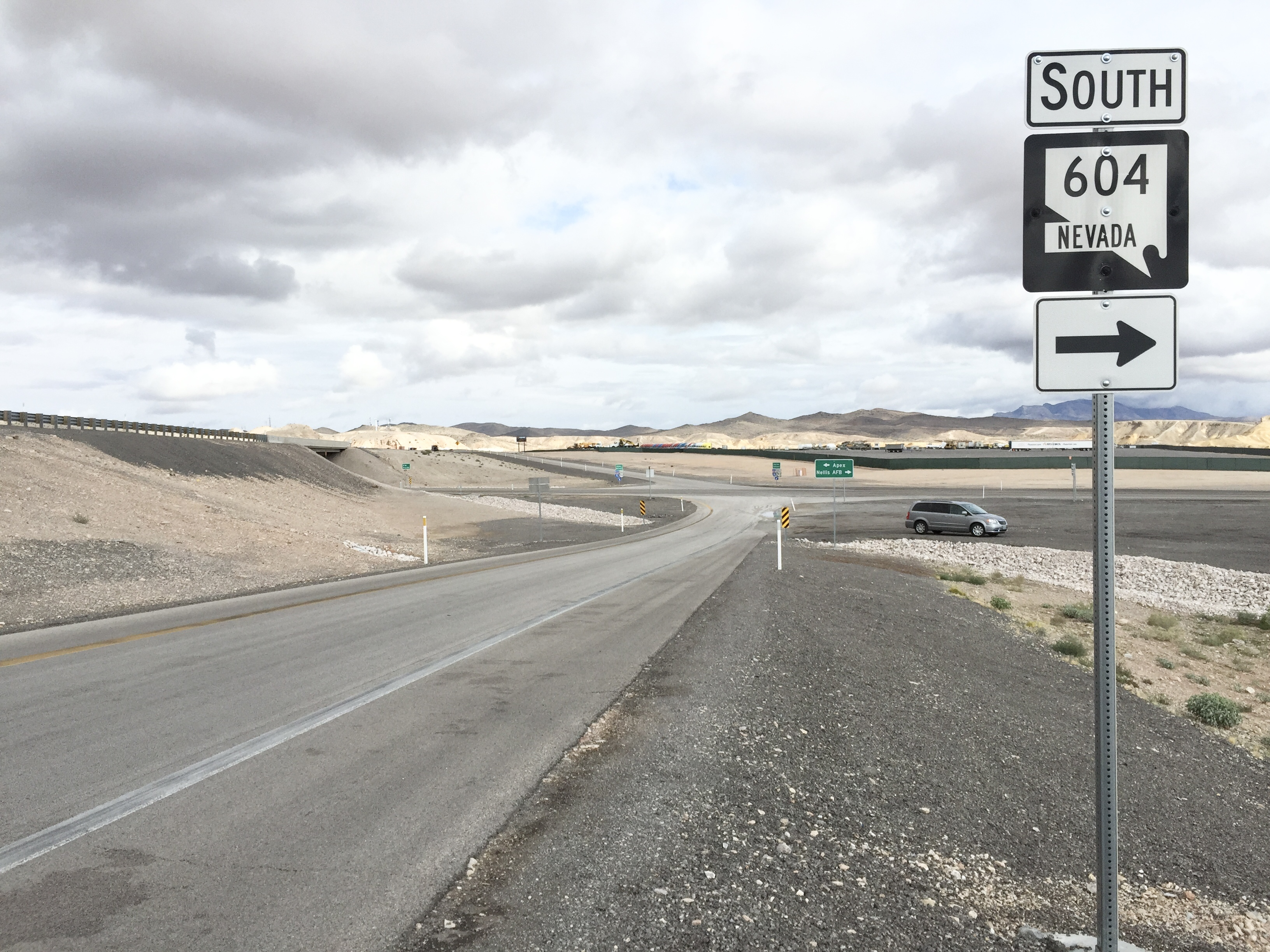 View along the ramp from northbound Interstate 15 and U.S. Route 93 to the northern end of Nevada State Route 604 (Las Vegas Boulevard) in Clark County, Nevada